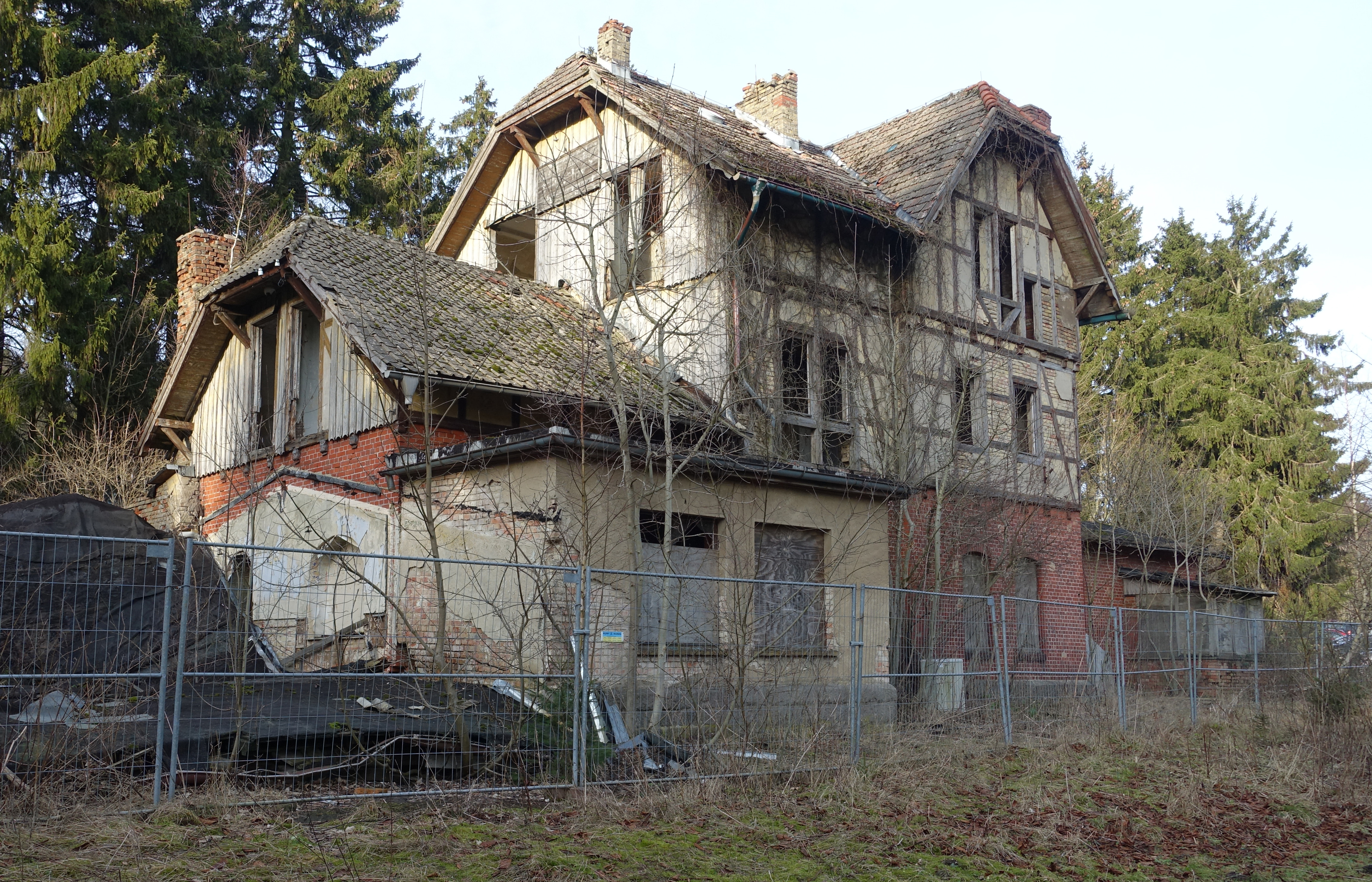 The derelict Drei Annen Hohne "lower" station in February 2016. This was built by the standard gauge Halberstadt-Blankenburg Railway and opened in 1907. It was closed in 1963